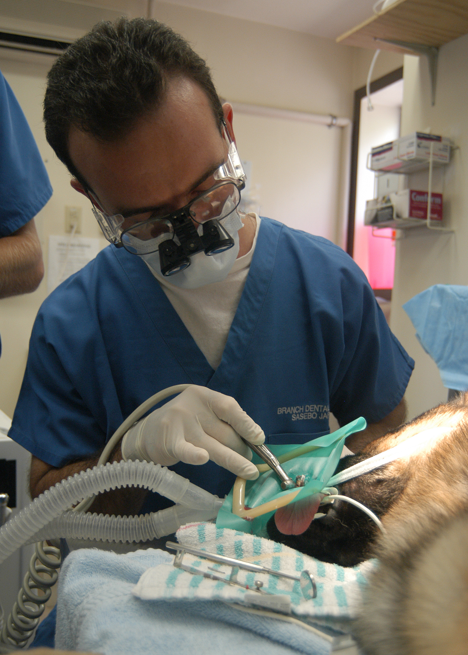 Sasebo, Japan (Aug. 5, 2005) - U.S. Navy Dentist Lt. Howard Polansky uses a dental drill to access a tooth’s root during an emergency root canal on a military working dog named “Dollar” at the on base veterinary clinic on board Fleet Activities Sasebo, Japan. Dollar, a three-year-old German Shepard, was injured in during a patrol training session with an arm sleeve earlier this week. Military working dogs are privilege to many of the same health and retirement benefits as their human counterparts. U.S. Navy photograph by Photographer's Mate Airman Stephanie Lynne Johnson (RELEASED)